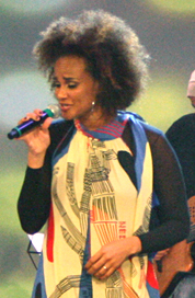 Brazilian singer and professional dancer Luciana Melo.